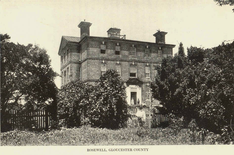 Rosewell Plantation before it burned into ruins in 1916